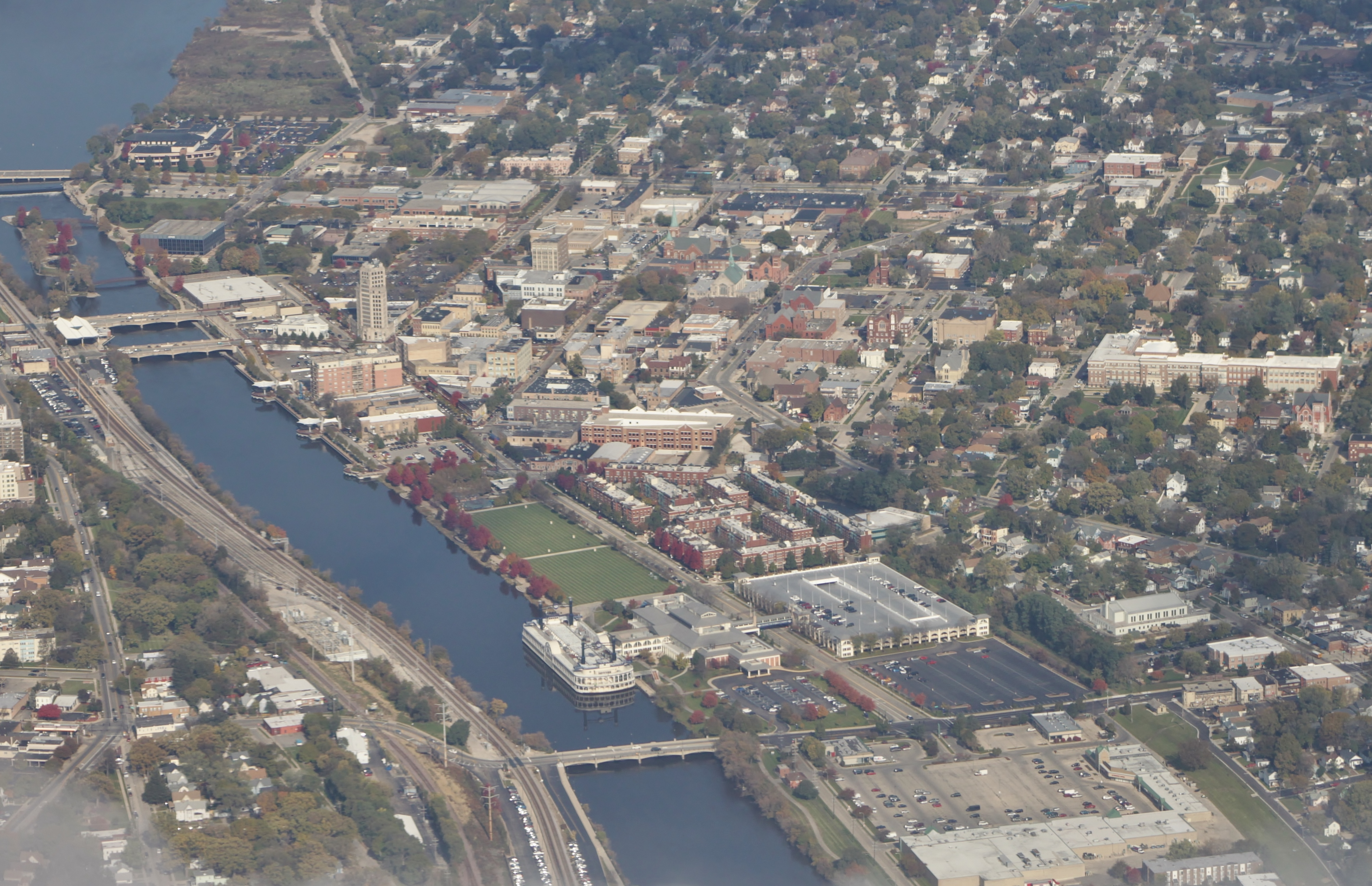 An aerial view of downtown Elgin, Illinois, a suburb of Chicago on the Fox River.